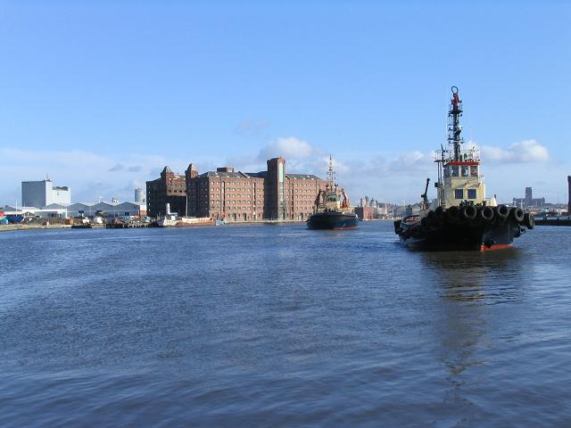 East Float Dock, Wallasey. The tugboats coming to assist a ship in another dock are THORNGARTH (right) and SVITZER STANLOW (left). THORNGARTH IMO Number: 8311998 MMSI Number: 232004165 Callsign: MPHP5 Length: 33 m Beam: 10 m SVITZER STANLOW IMO numbr: 9352793 MMSI: 235010620 GRT 656 L 39 m(37,50), B 16m(13,50), D3,30m 2 VSP, 2x diesel, 7180bhp total, bp 70t 2006: Built by "ASL Shipyard Pte Ltd" at Singapore (SGP) (YN 500) delivered to "Svitzer Marine Ltd" at Middlesbrough (GBR) (GBR flag, regd Liverpool, c/s MLNF7)